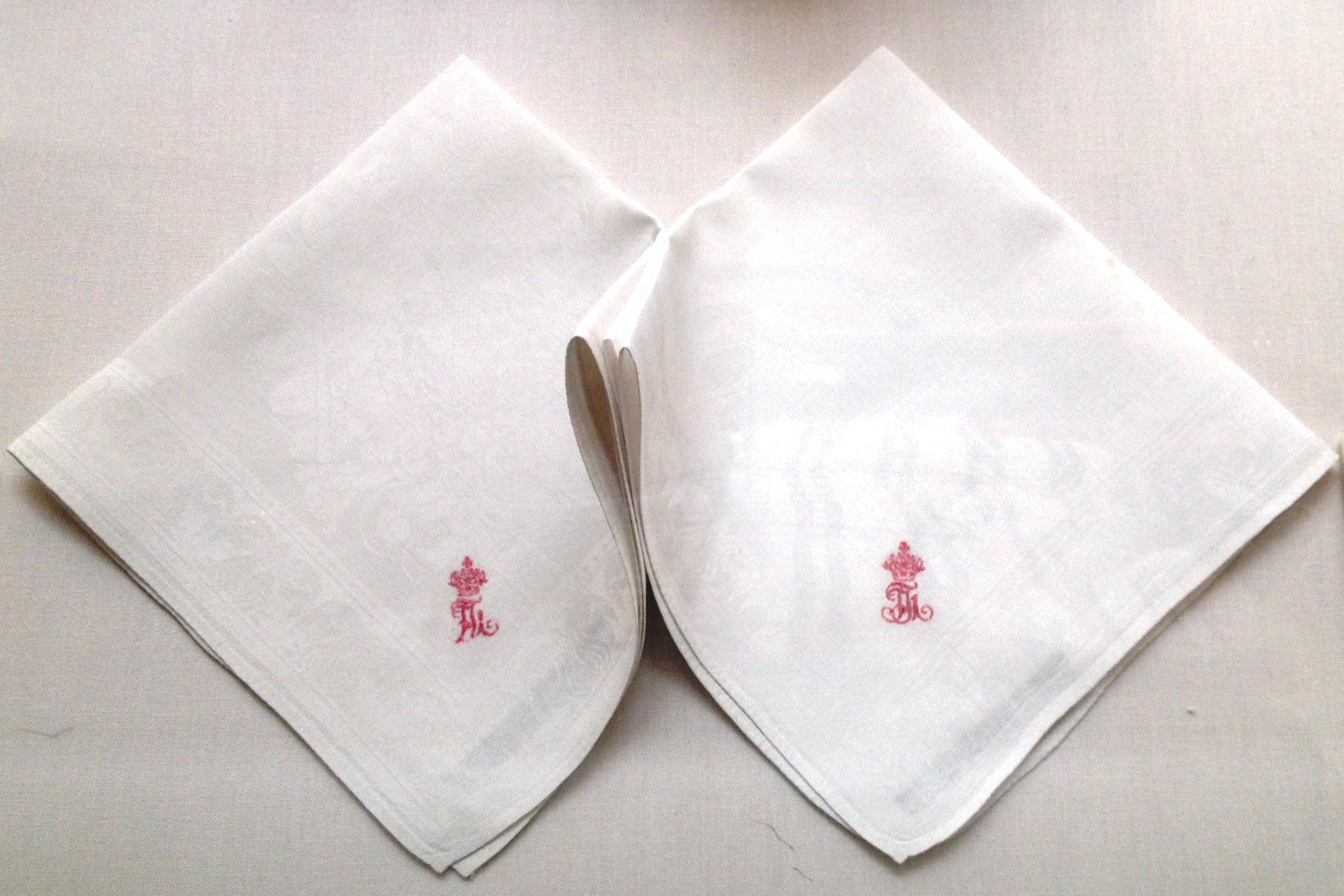 Table linen for Emperor Franz Joseph I. Linen damask by Regenhart & Raymann, Austria-Silesia. Second half of 19th century, the pieces with the white crown were used for the emperor's table.